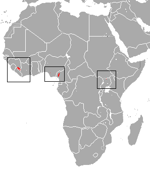 Hill's Horseshoe Bat (Rhinolophus hillorum) range